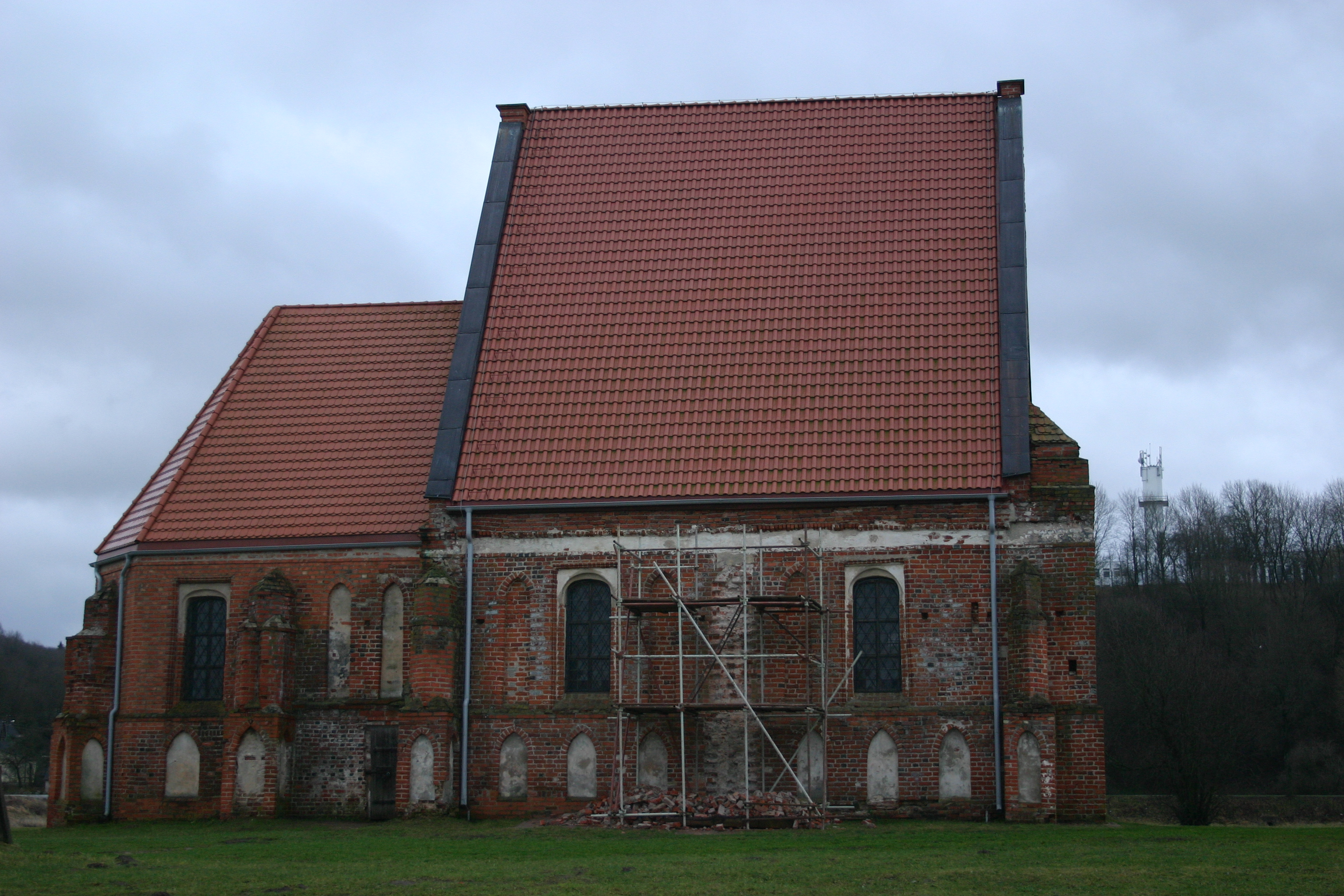 Zapyškis church, Lithuania